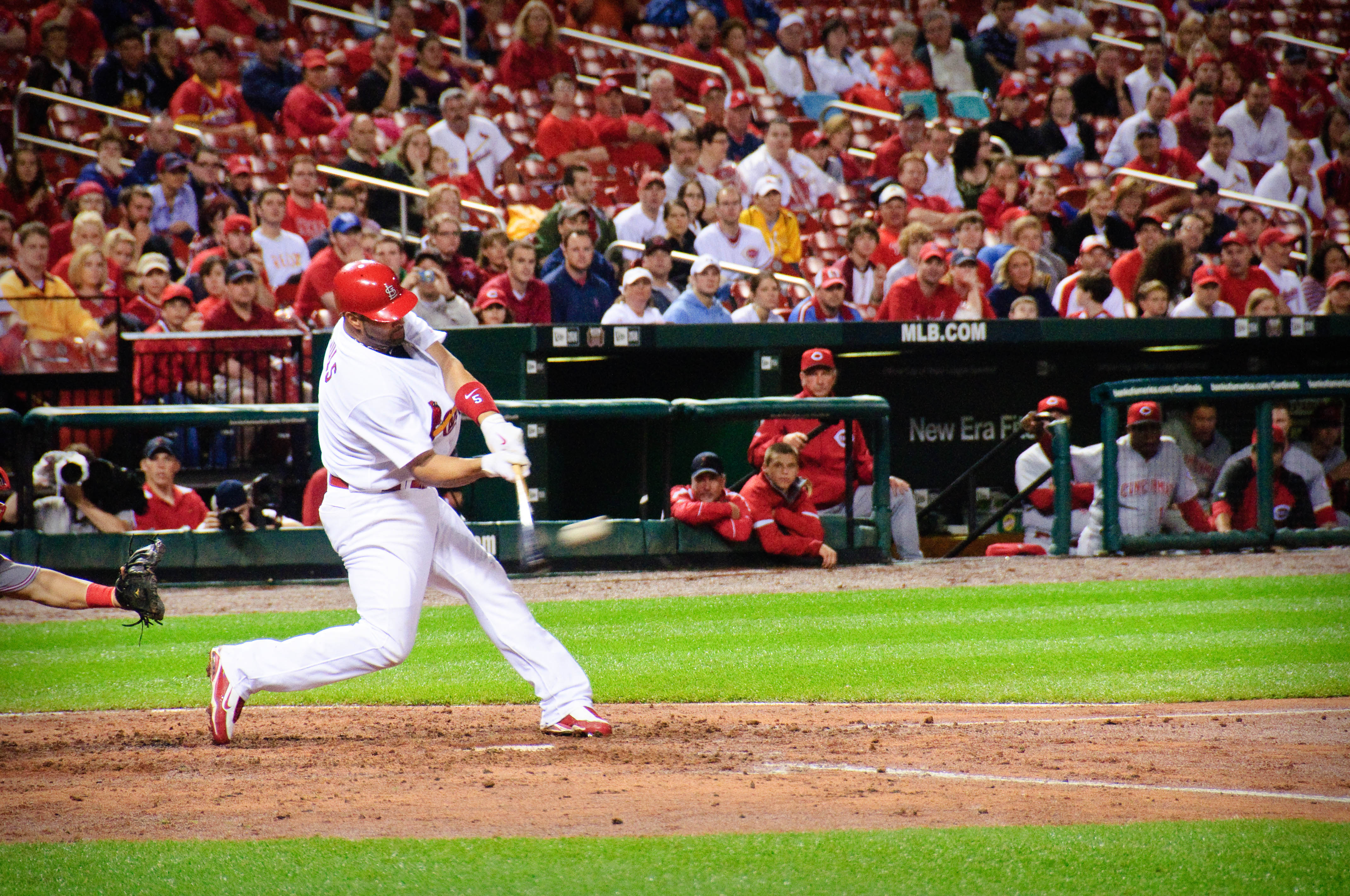 Cardinals vs. Reds April 30, 2010. Pujols grounded out in the first inning, was intentionally walked in the third, singled to left field in the sixth and singled to center field in the eighth. [1] Cardinals lost 3-2.